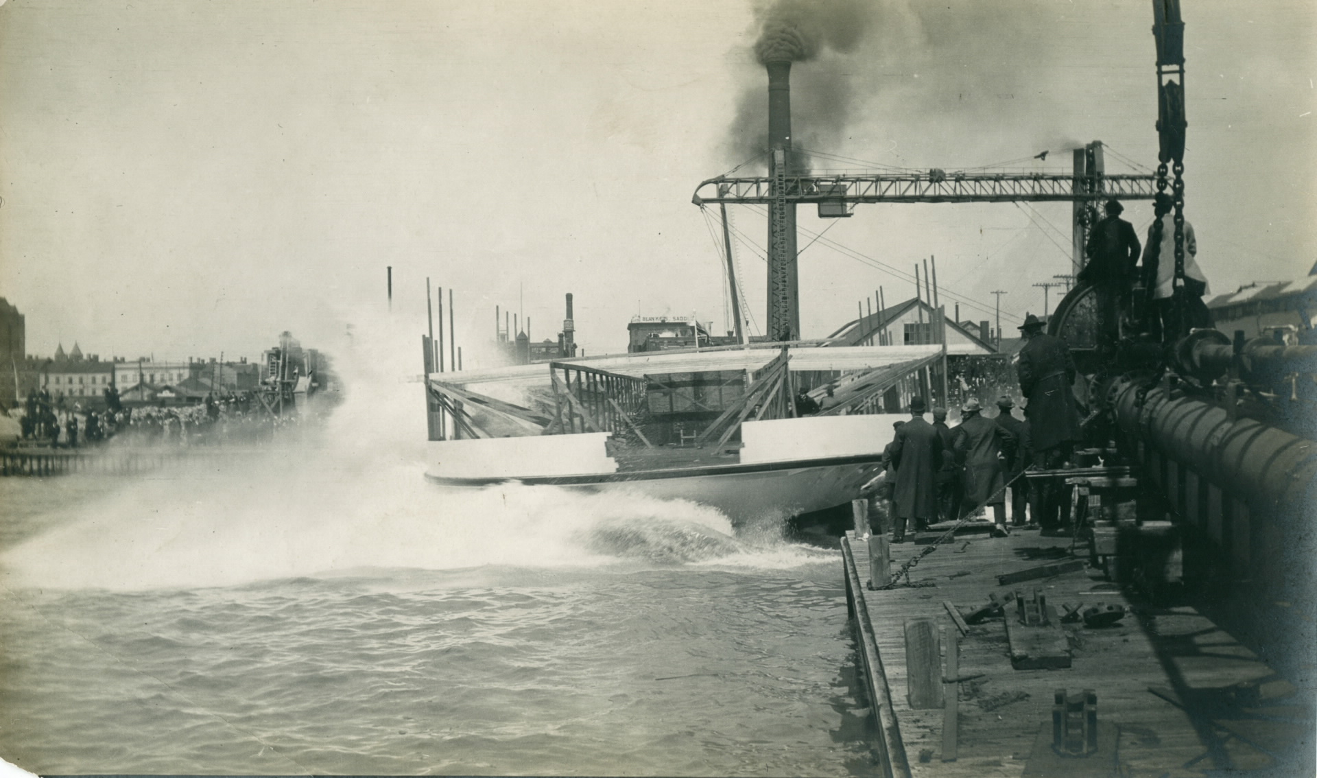 Shows launching of Bluebell at Polson Iron Works